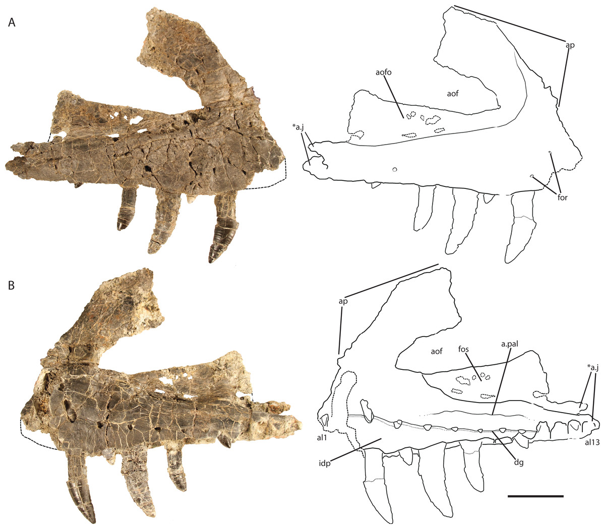 Holotype right maxilla of Vivaron haydeni gen. et. sp. nov. (GR 263) in (A) lateral and (B) medial views (with interpretive drawings). Abbreviations: a, articulation; al, alveolus; aof, antorbital fenestra; aofo, antorbital fossa; ap, ascending process; dg, dental groove; for, foramen; fos, fossa; idp, interdental plate; j, jugal; pal, palatine; *indicates autapomorphy. Scale bar = 5 cm.